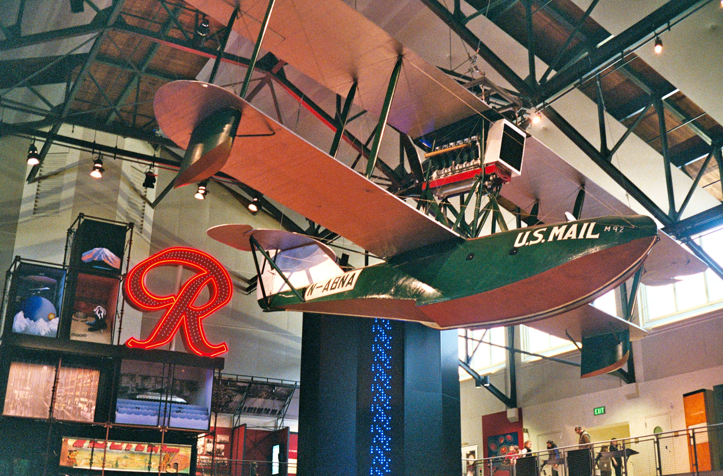 Boeing Model 6 at the Museum of History and Industry in the Naval Reserve Armory building, Seattle, Washington. Rainier Brewing Company trademark R sign in the background